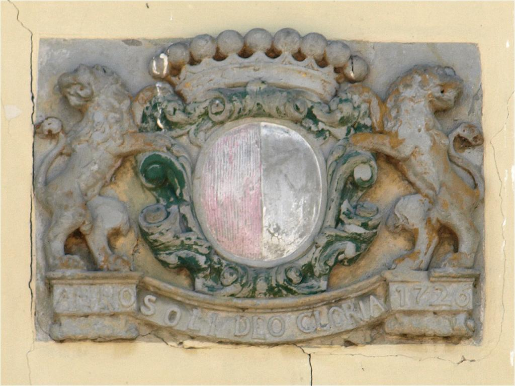 Estate Rastorf, enblem, (Schleswig-Holstein, Germany) , photo 2011